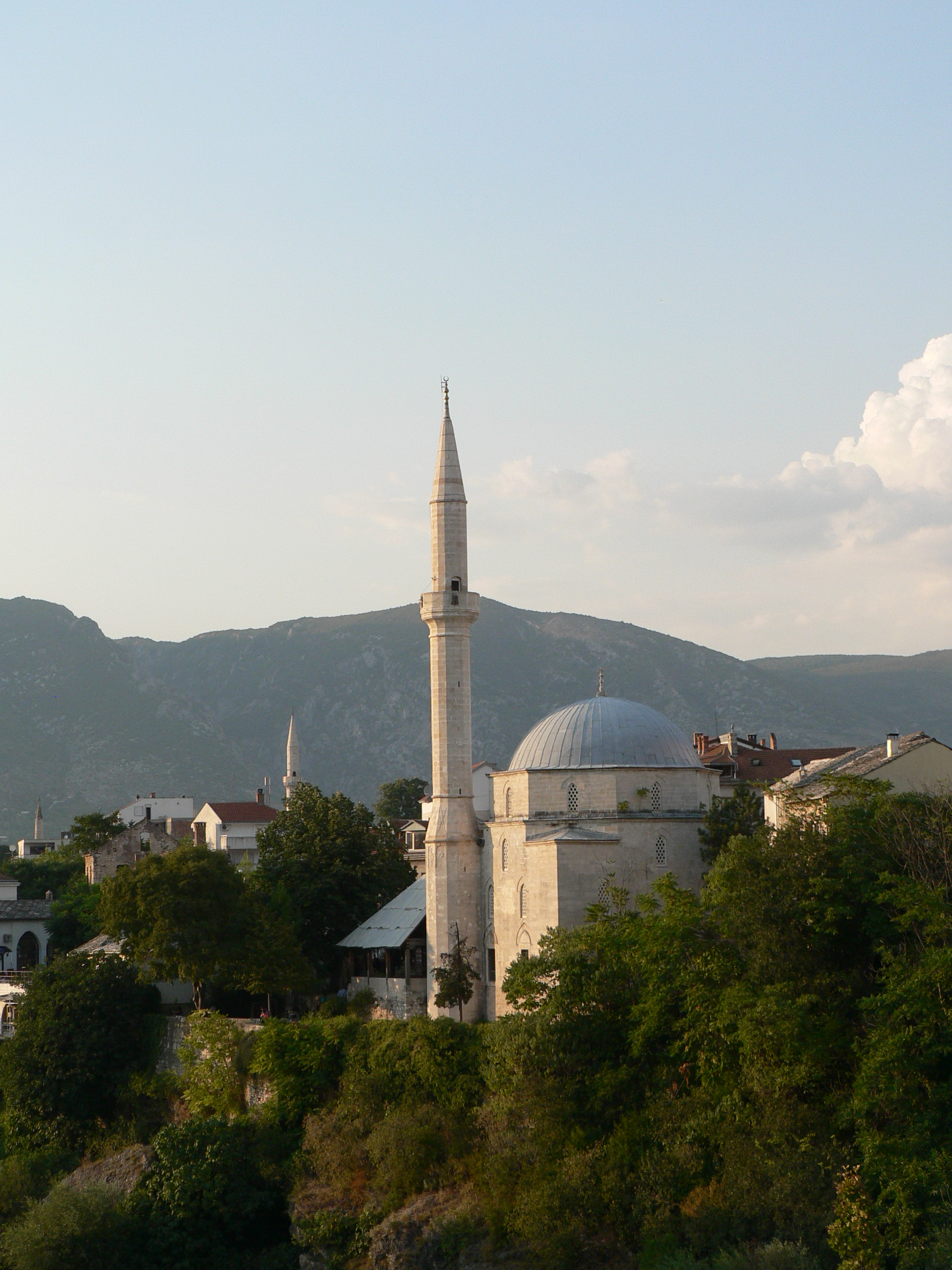 Koski Mehmed pasha’s mosque, Mostar